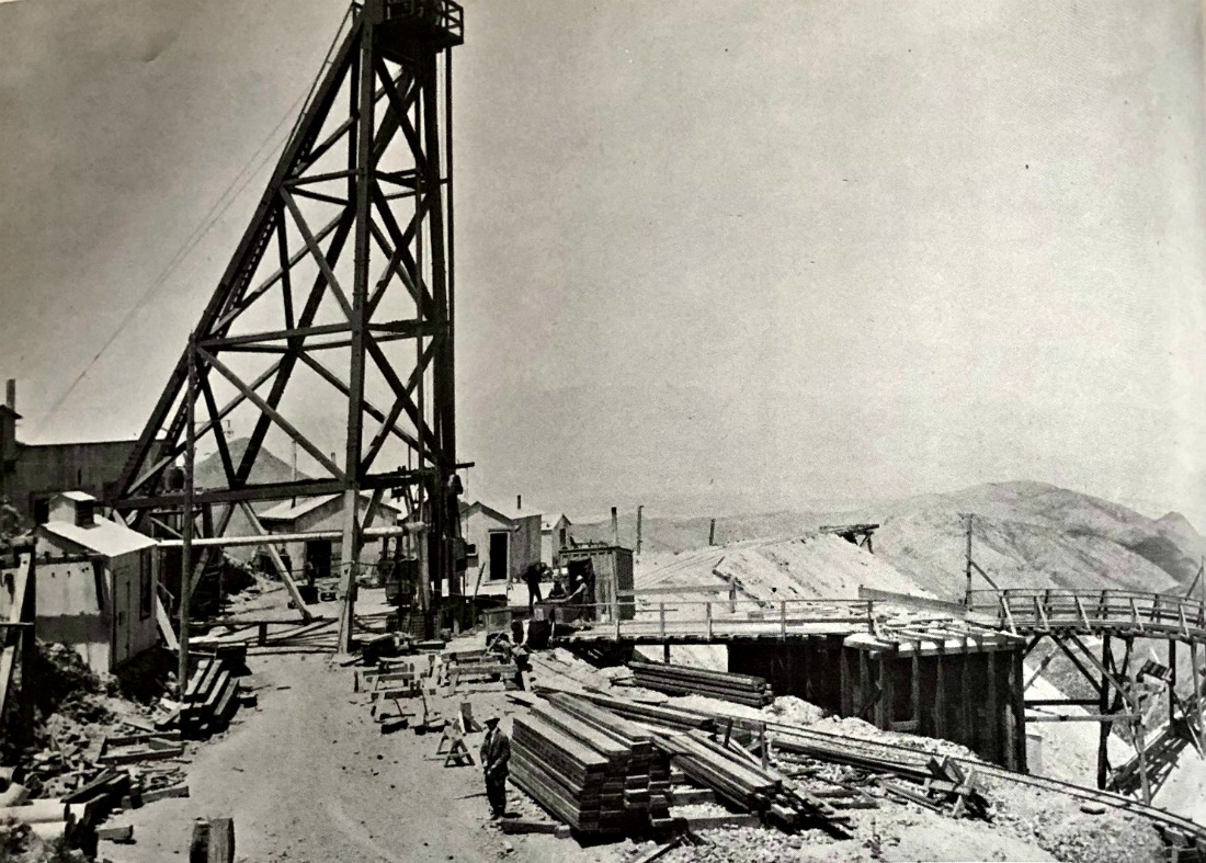 Main shaft, Wonder mine, Wonder Nevada 1907